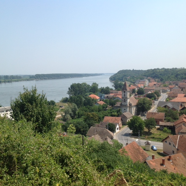 Sarengrad, Croatia